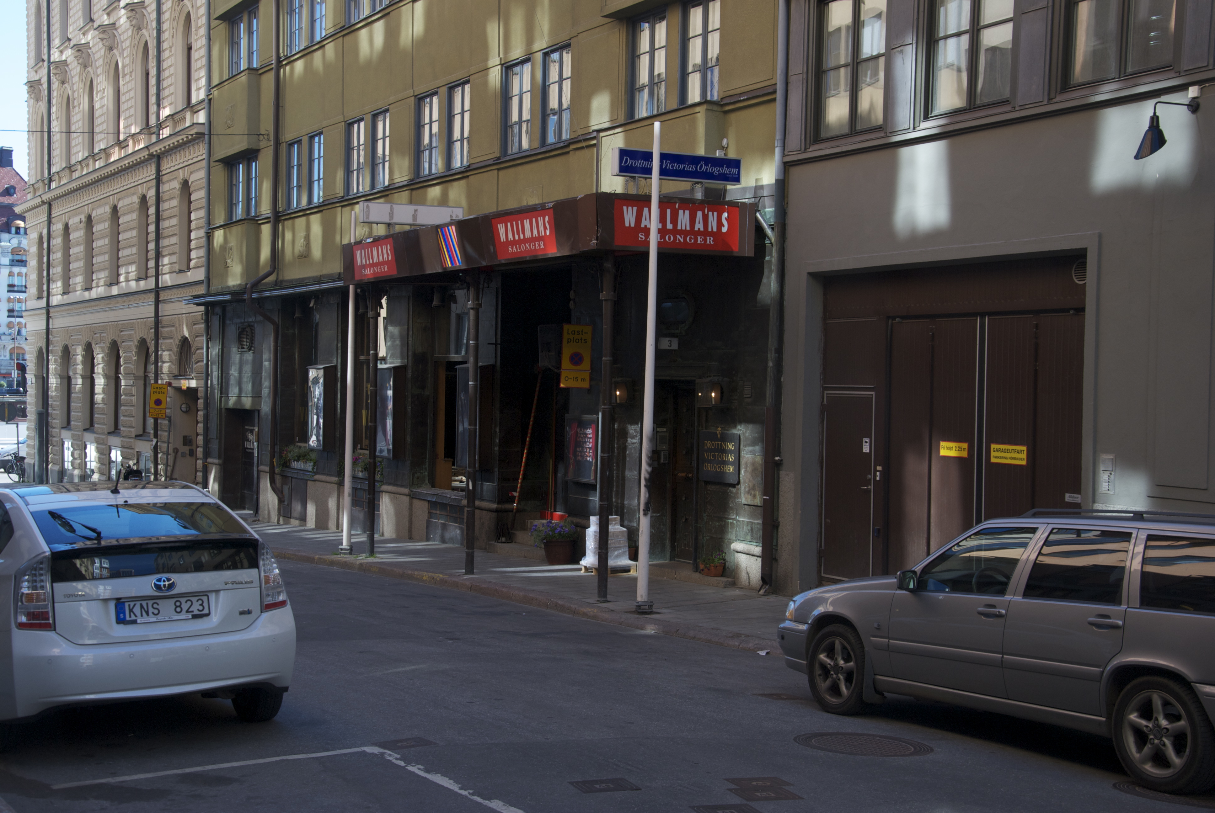 Wallmans salonger, June 2011